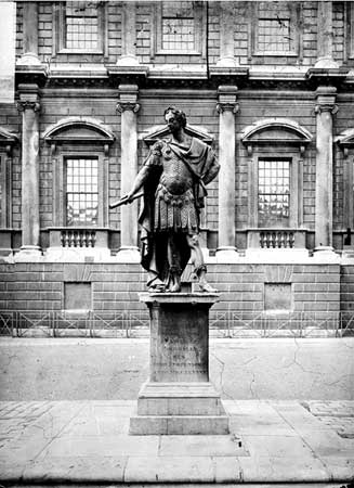 This is the statue of King James II, the last Catholic King of England, in its original position in Whitehall Gardens behind the Banqueting House. It was carved by Grinling Gibbons and cast in bronze showing the King in Roman Armour. At the time it was placed here in 1686 the area was part of Whitehall Palace, when the Palace burnt down the area began to change around the statue although the Banqueting House which was known until comparatively recently as the Chapel Royal survived the fire. In 1897 the statue was moved several yards to the garden of Gwydyr House which is south of the Banqueting House on Whitehall. The garden was at the side of Gwydyr House so the statue looked out over Whitehall. That is until 1902 when it was moved again because of the Coronation of Edward VII. At the time it was felt inappropriate that a Catholic King should be on the Coronation route. The statue was subsequently placed at the end of the Admiralty extension in an area of St. James's Park known as the Cambridge Enclosure. This area was subsequently used for the building of the Citadel in 1939. Again the statue was on its travels and after being in store during WW2 it was placed in front of the west wing of the National Gallery in Trafalgar Square where it remains today.